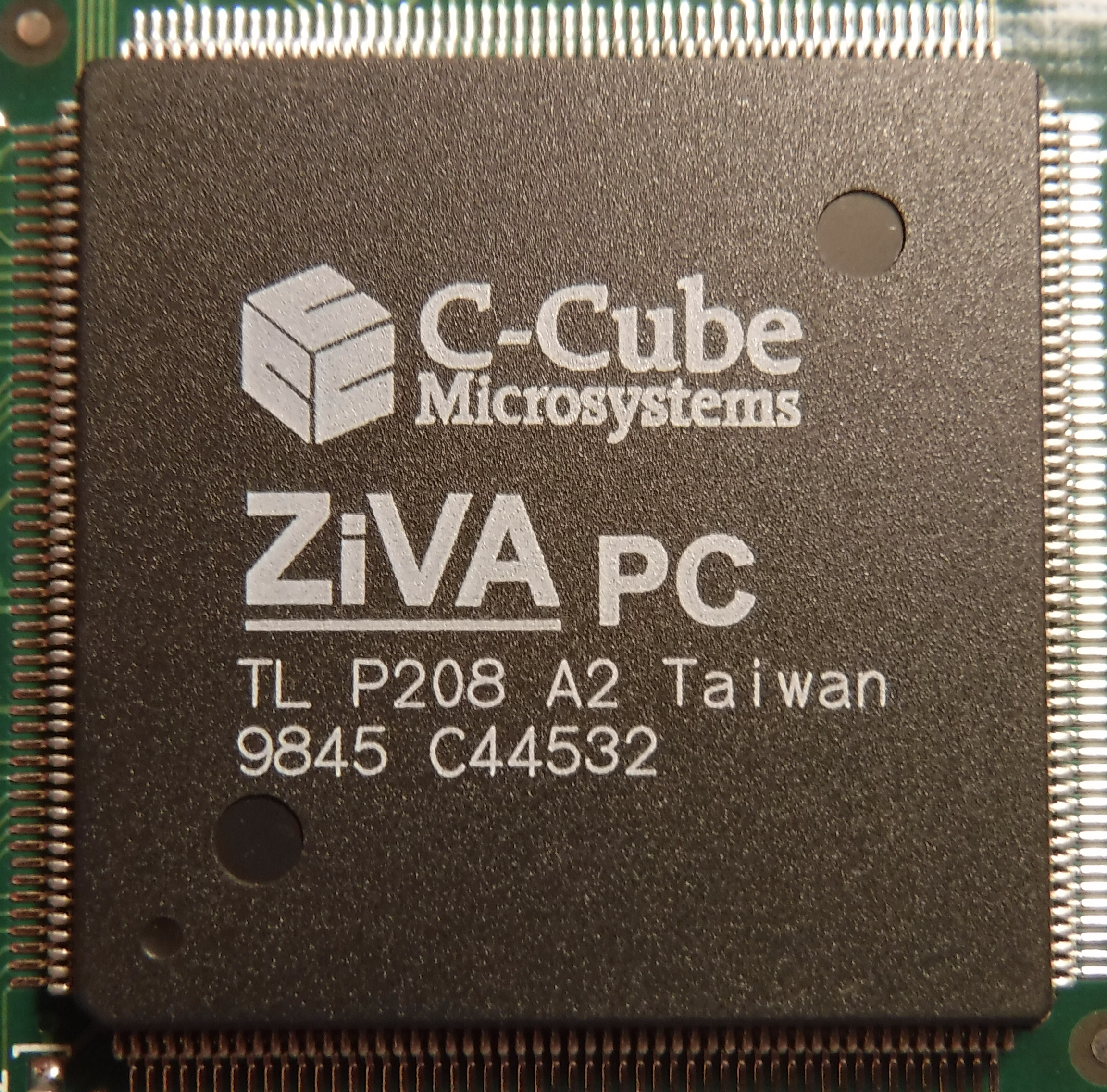 C-Cube ZiVA-PC DVD video decoder on a Quadrant International CineMaster 3.0 PCI board